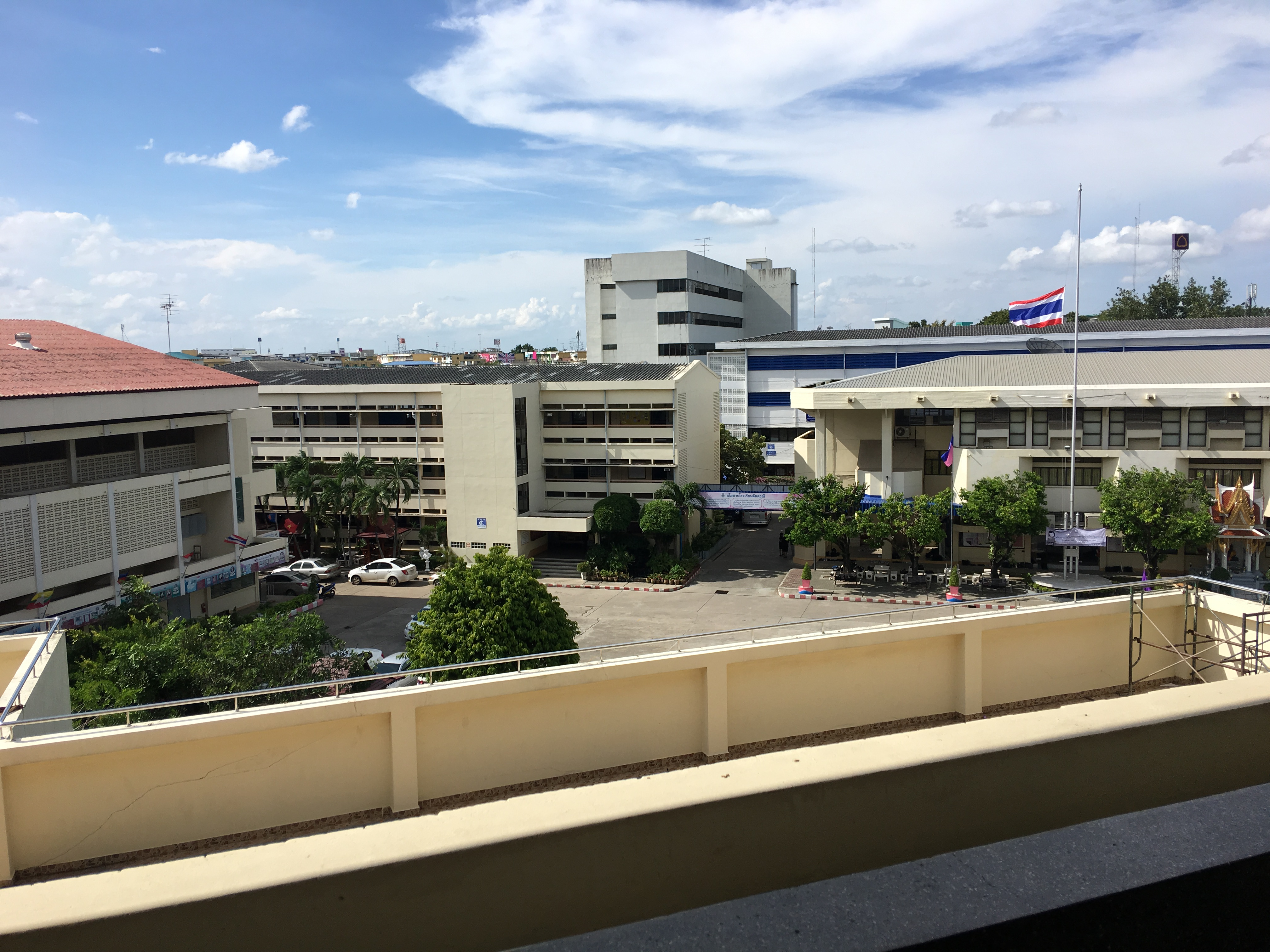 A view of the school campus taken from the 4th floor of the Chalermprakiat Building.